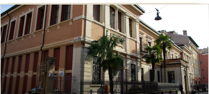 External building of Biblioteca Universitaria Padova